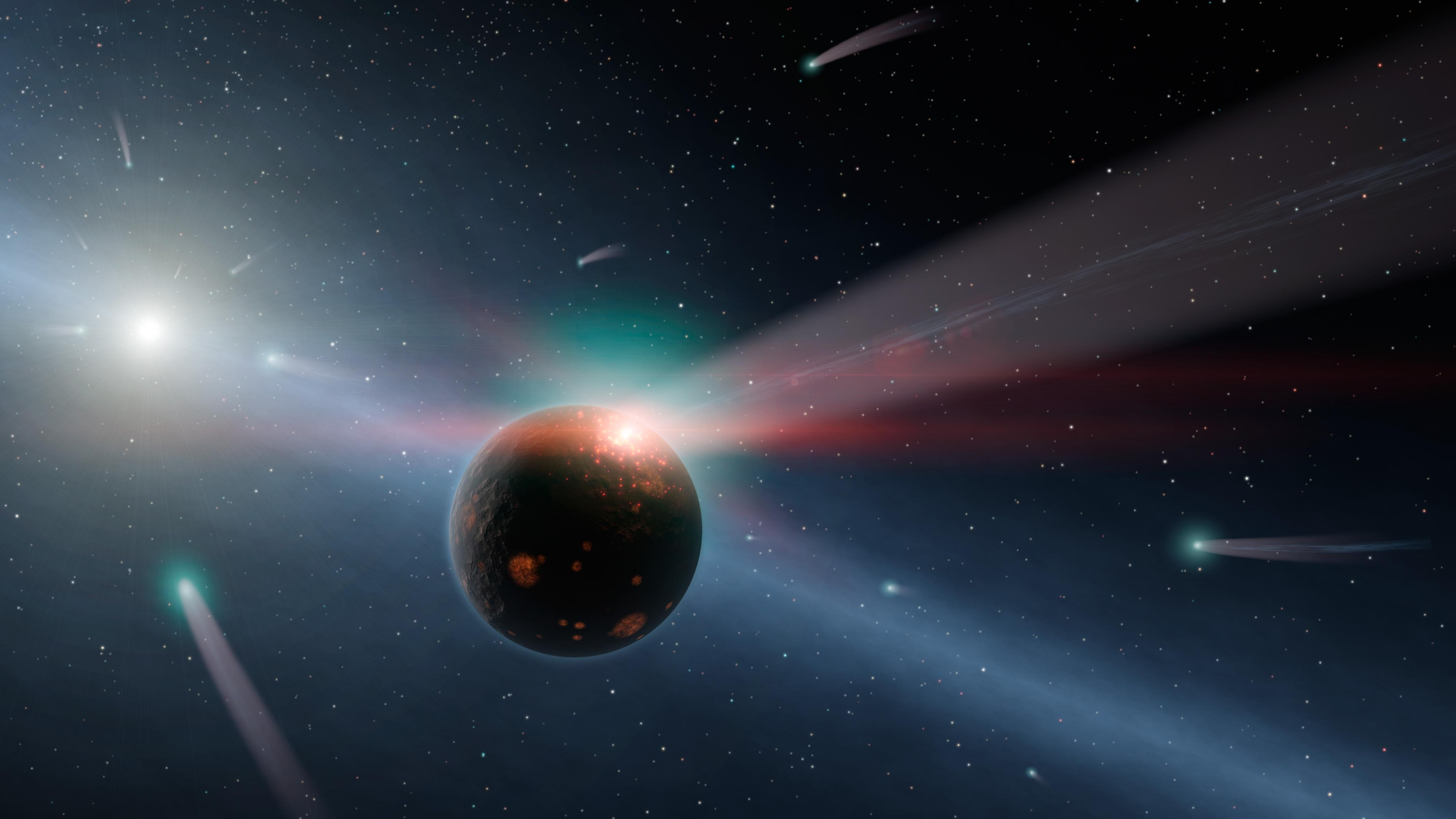 It's Raining Comets This artist's conception illustrates a storm of comets around a star near our own, called Eta Corvi. Evidence for this barrage comes from NASA's Spitzer Space Telescope, whose infrared detectors picked up indications that one or more comets was recently torn to shreds after colliding with a rocky body. In this artist's conception, one such giant comet is shown smashing into a rocky planet, flinging ice- and carbon-rich dust into space, while also smashing water and organics into the surface of the planet. A glowing red flash captures the moment of impact on the planet. Yellow-white Eta Corvi is shown to the left, with still more comets streaming toward it. Spitzer detected spectral signatures of water ice, organics and rock around Eta Corvi -- key ingredients of comets. This is the first time that evidence for such a comet storm has been seen around another star. Eta Corvi is just about the right age, about one billion years old, to be experiencing a bombardment of comets akin to what occurred in our own solar system at 600 to 800 millions years of age, termed the Late Heavy Bombardment. Scientists say the Late Heavy Bombardment was triggered in our solar system by the migration of our outer planets, which jostled icy comets about, sending some of them flying inward. The incoming comets scarred our moon and pummeled our inner planets. They may have even brought materials to Earth that helped kick start life. Image credit: NASA/JPL-Caltech